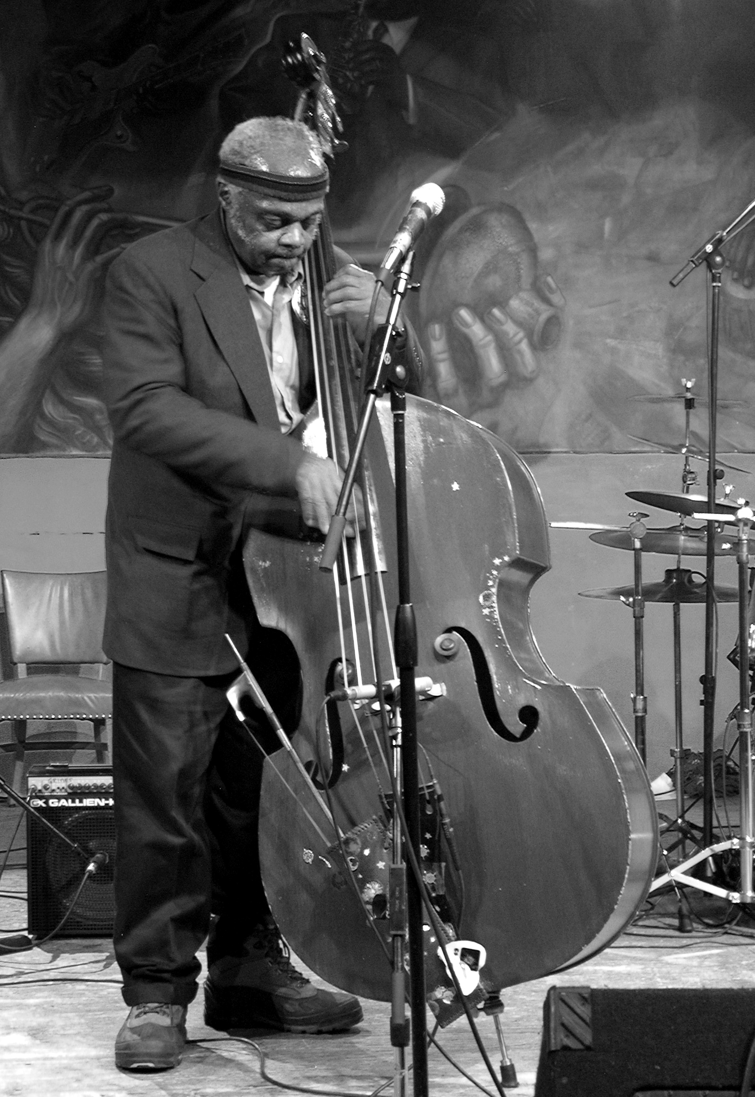 description: Henry Grimes, Marshall Allen, Fred Anderson, Avreeayl Ra @ HotHouse in Chicago, March 12, 2005 photographer: Seth Tisue photographer_location: Boston, MA, USA photographer_url: [1] flickr_url: [2] taken:March 12, 2005